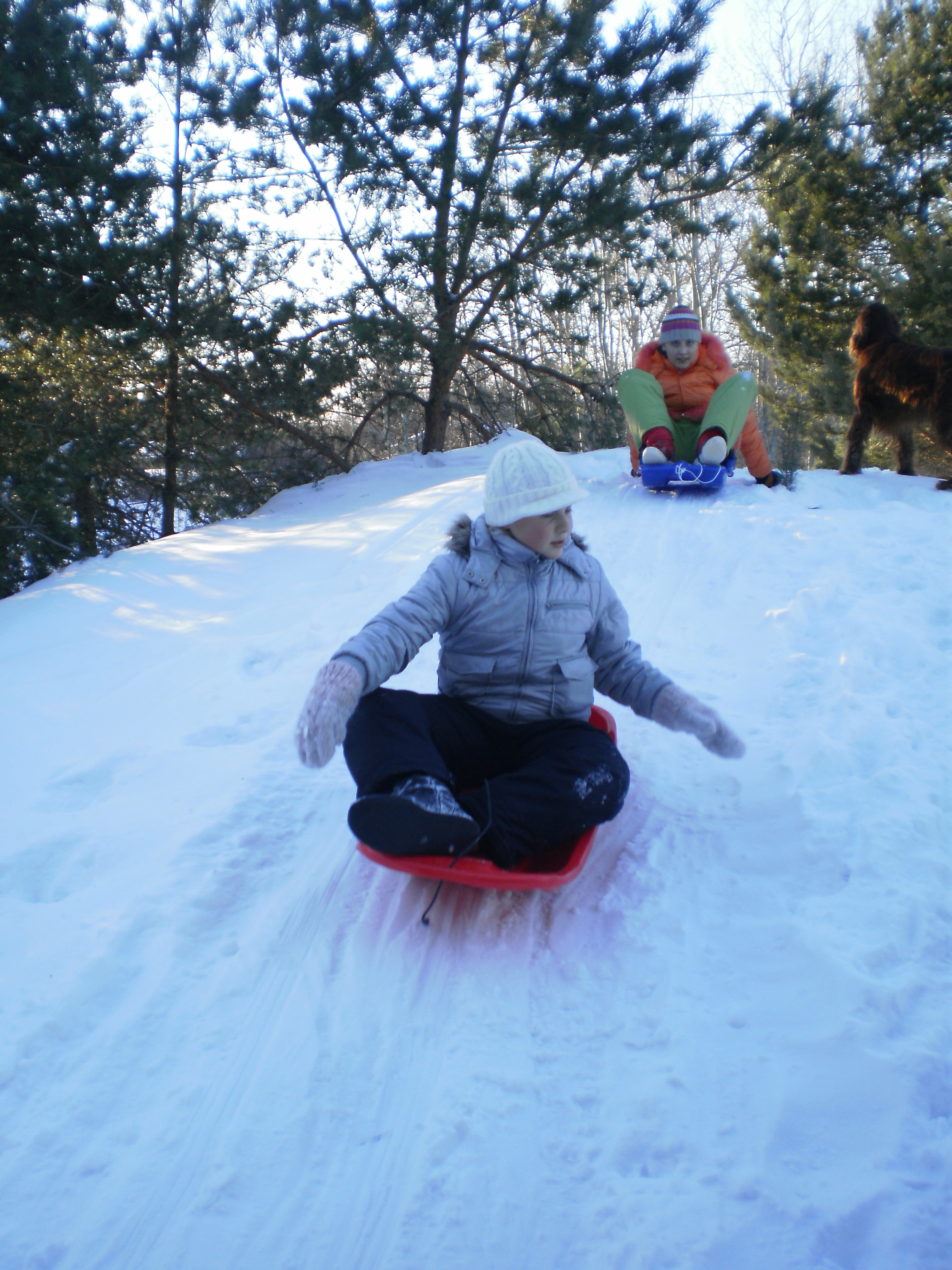 Prangli Island schoolchildren Luge